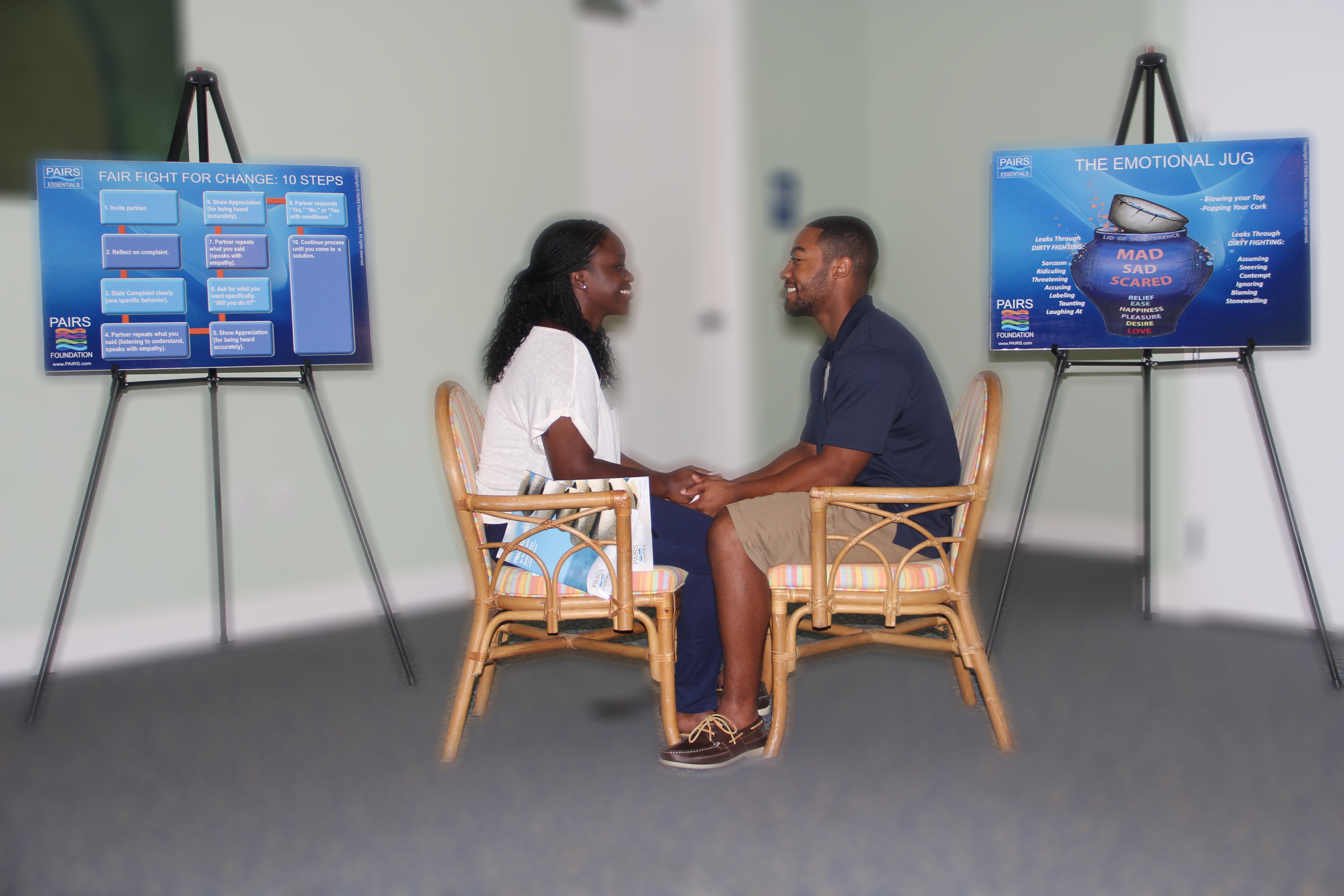 Couple practices communication skills in relationship education class.